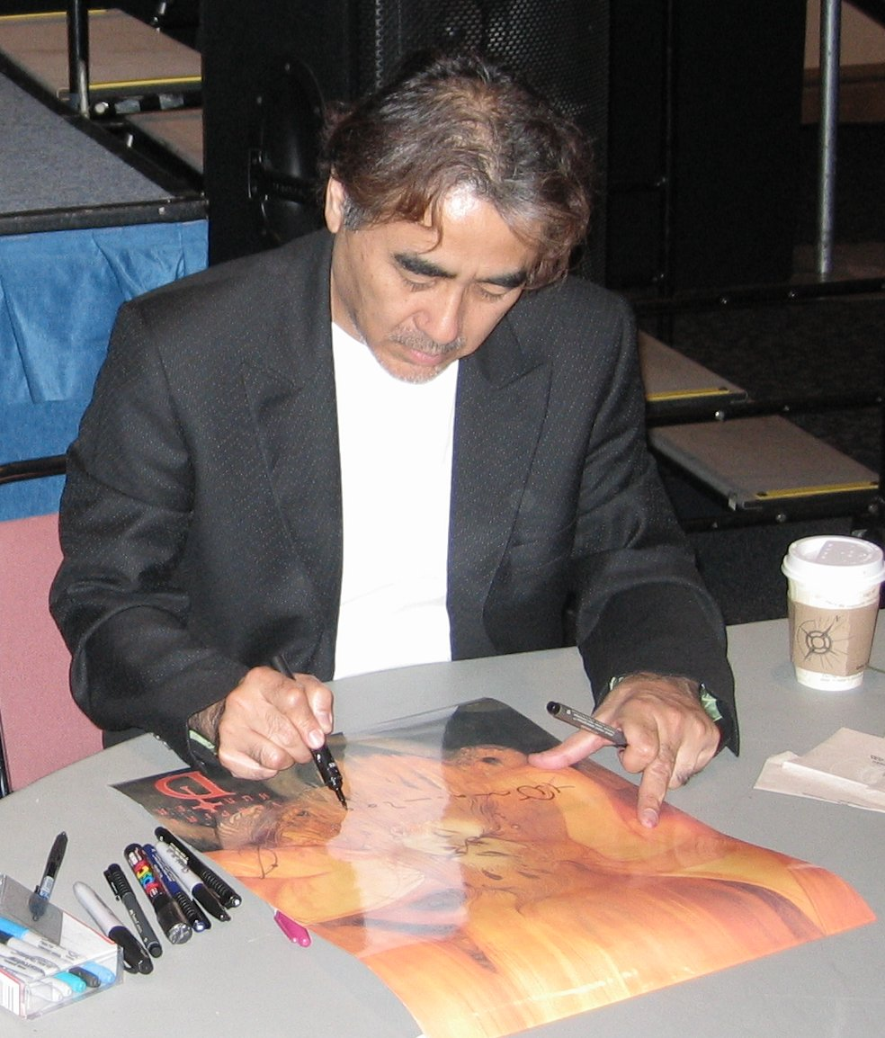 A photograph of Yoshitaka Amano taken by me in mid-October 2006 at AmanoCon in Tampa, Florida. He is in the process of autographing a Vampire Hunter D poster.